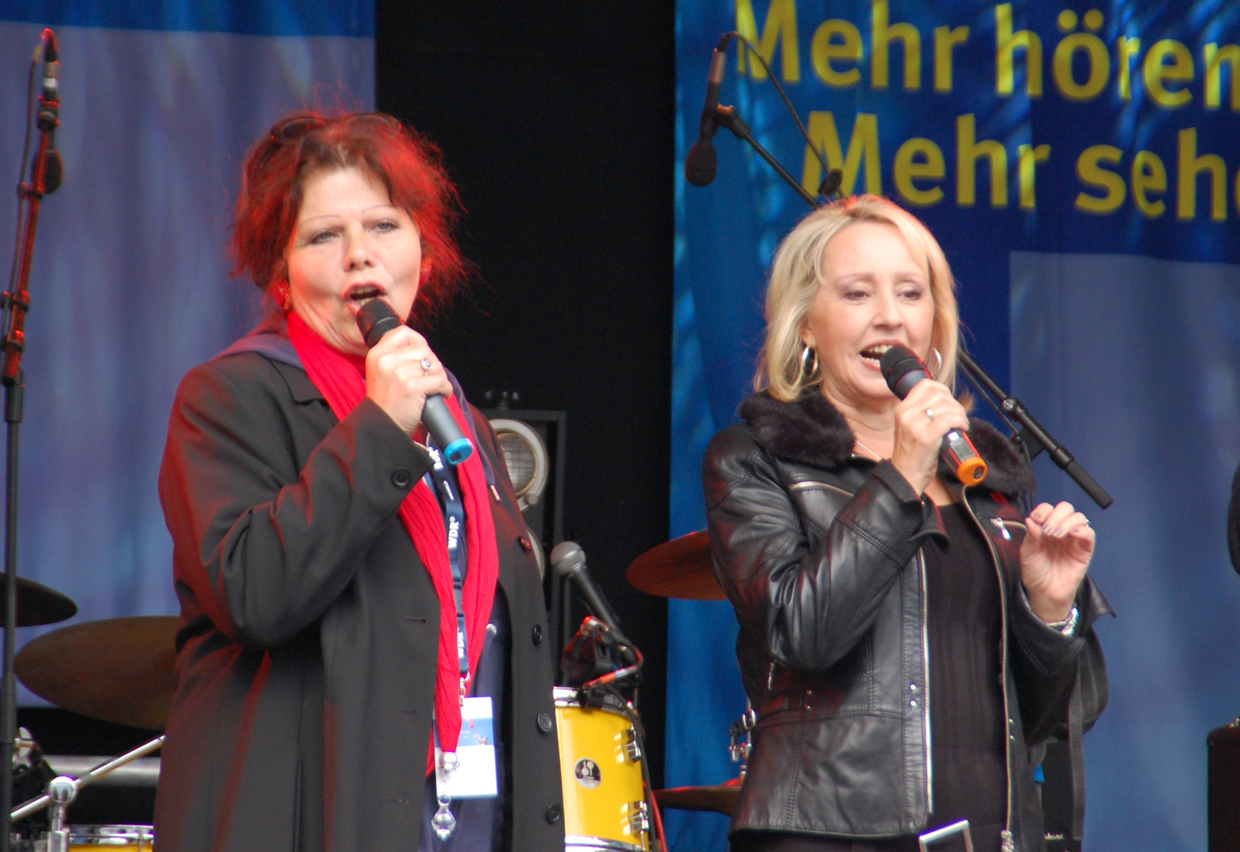 Samy Orfgen and Hildegard Krekel at NRW-Tag in Siegen 2010